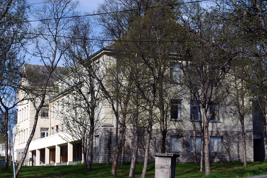 Troms County Council owns Troms fylkeskultursenter i Tromsø. Troms fylkeskultursenter is a production center for professional artists and a meeting place for artists in Troms.